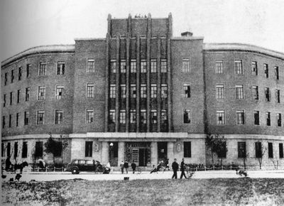 The Tahsing building of Hsinking（大兴会馆·新京）